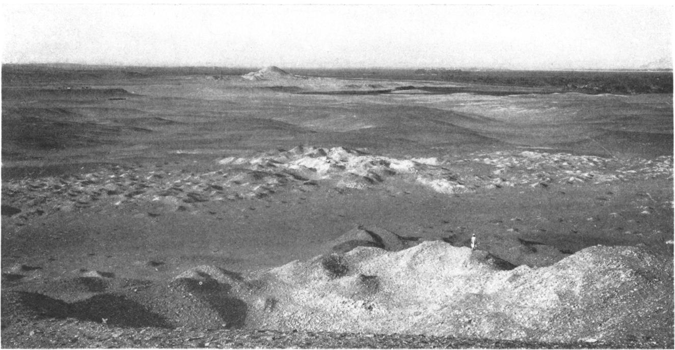 View from the Pyramid of Senusret I to the Pyramid of Amenemhat I